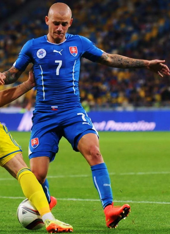 Vladimír Weis